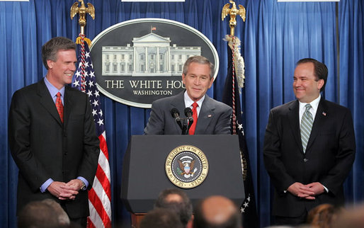 White House press secretary Tony Snow pictured with President Bush and former secretary Scott McClellan.